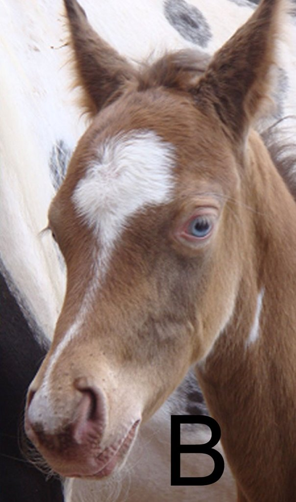 Champagne Eye and Skin traits. A, B and C) Eye and skin color of foals. D and E) Eye color and skin mottling of adult horse.